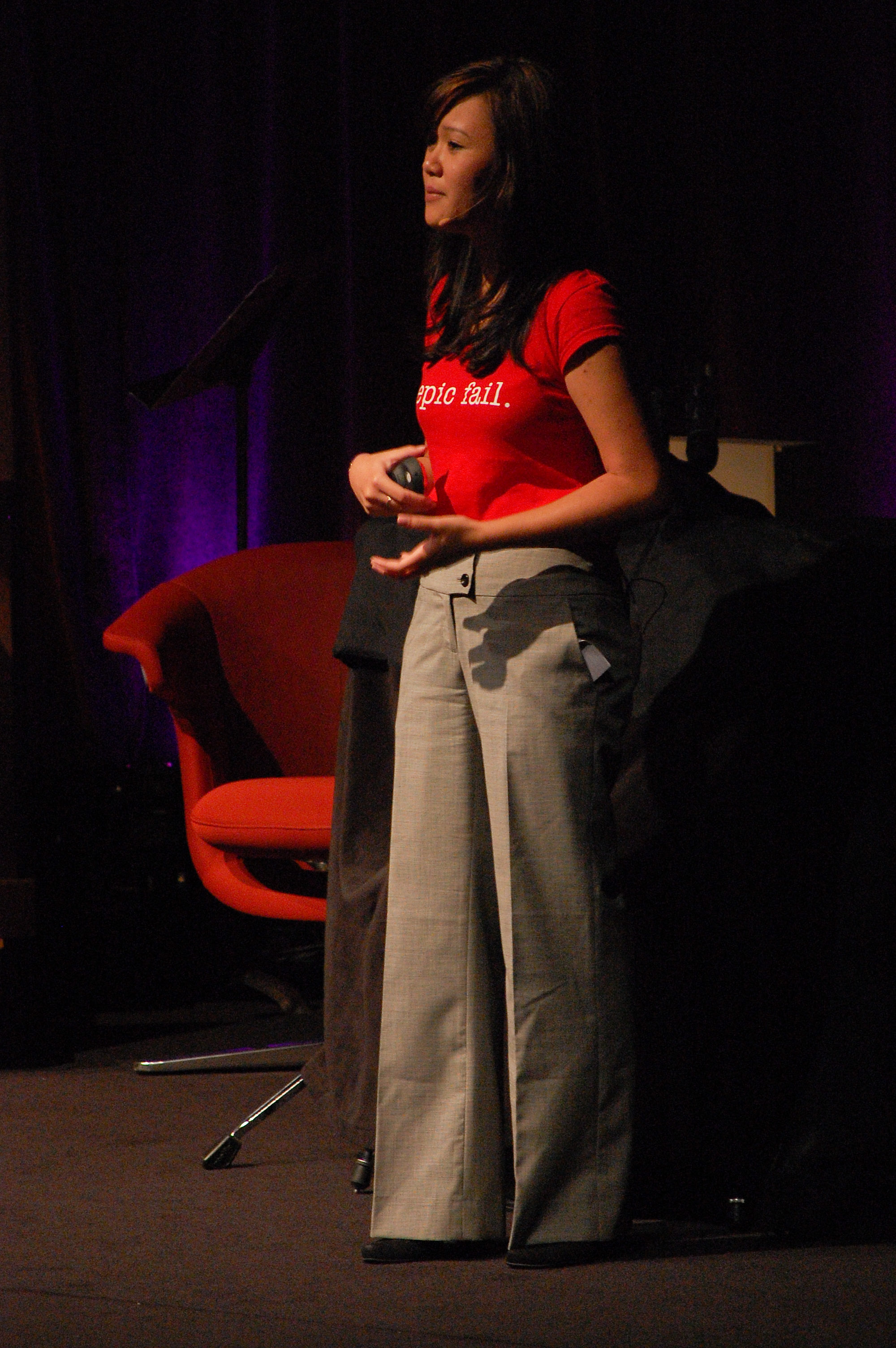 Natalie Tran speaking at the EG2010 conference, held January 21-23 in Monterey, CA.